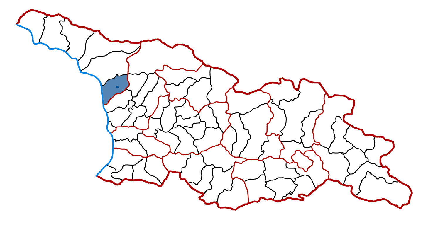 Location of Gali district in Georgia